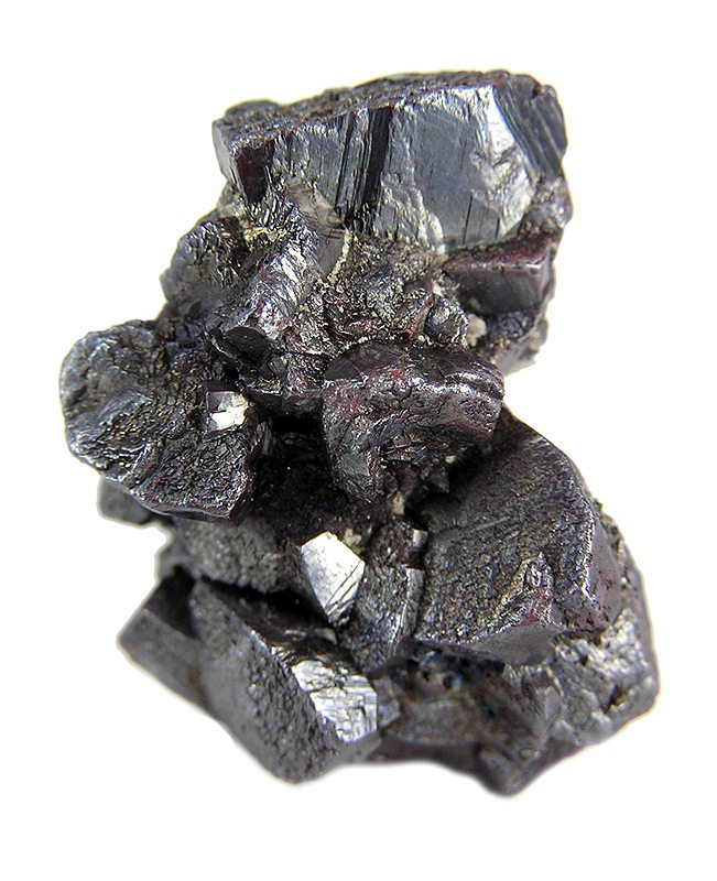 Proustite Locality: Saxony, Germany (Locality at ) Size: miniature, 3.3 x 2.7 x 1.6 cm Proustite Old German proustite from one of the classic silver mining districts of Europe. The specimen consists of a group of sharp, well formed crystals with a very nice metallic luster. The crystal have the typical deep red color noticeable behind the silvery surface. The group has no observable damage to any of the crystals and is complete 360 !